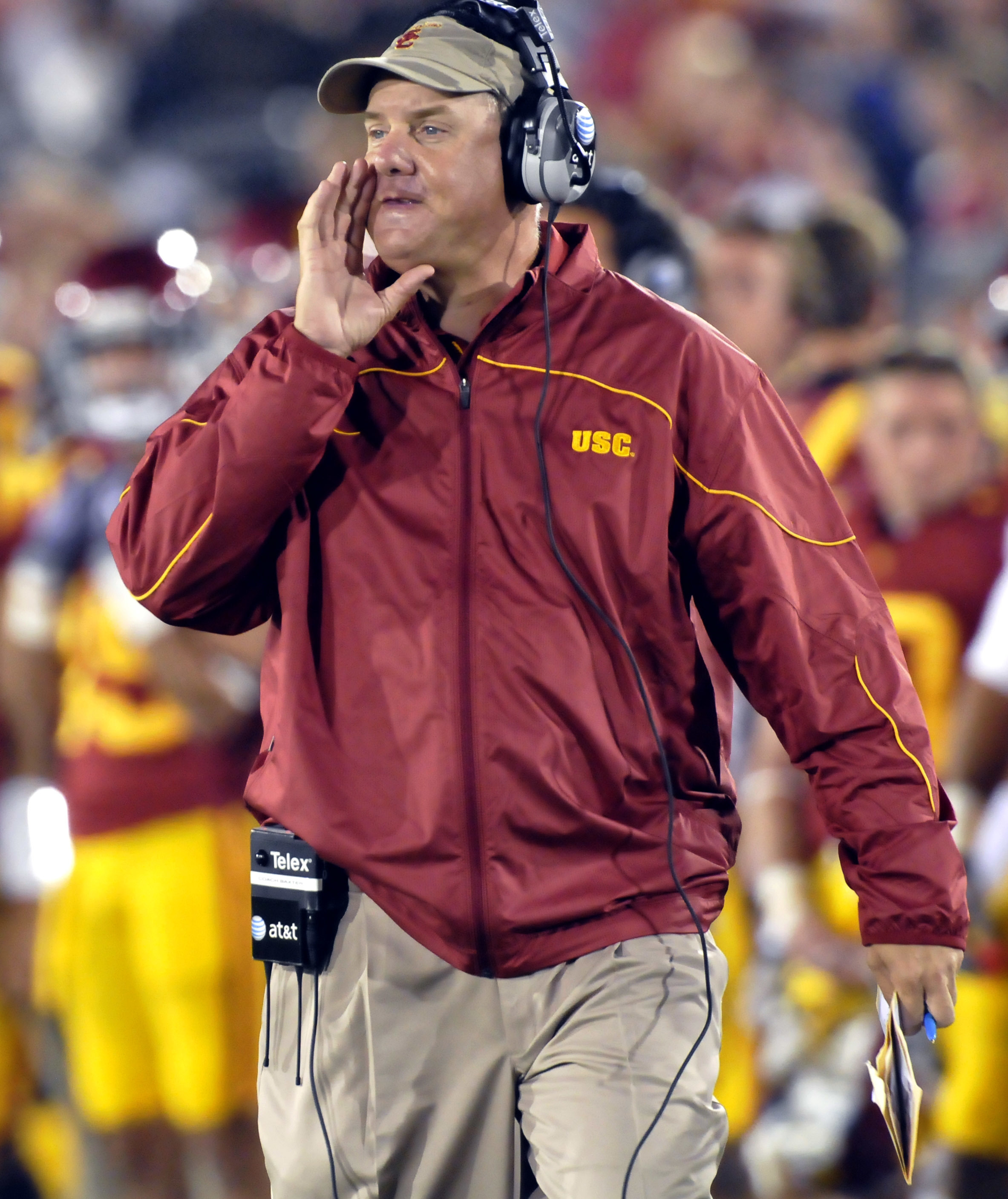 John Baxter, USC football assistant coach